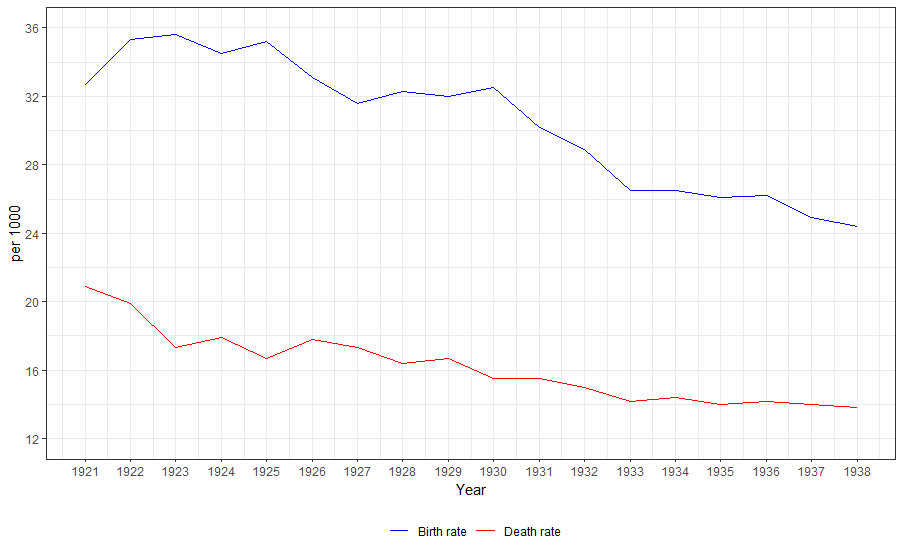 Birth and death rates in Poland between 1921 and 1938